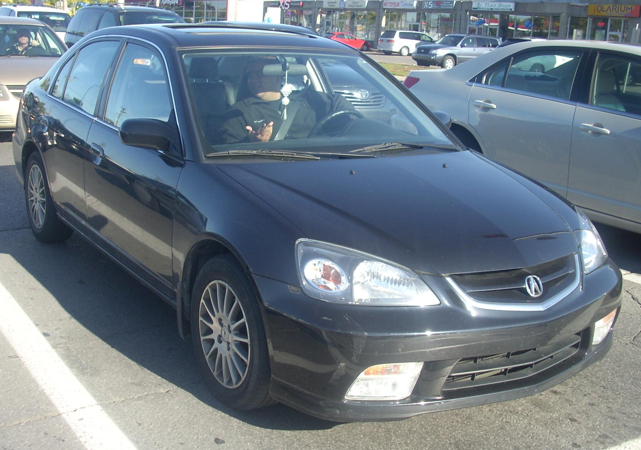 2004-2005 Acura EL photographed in Montreal, Quebec, Canada.